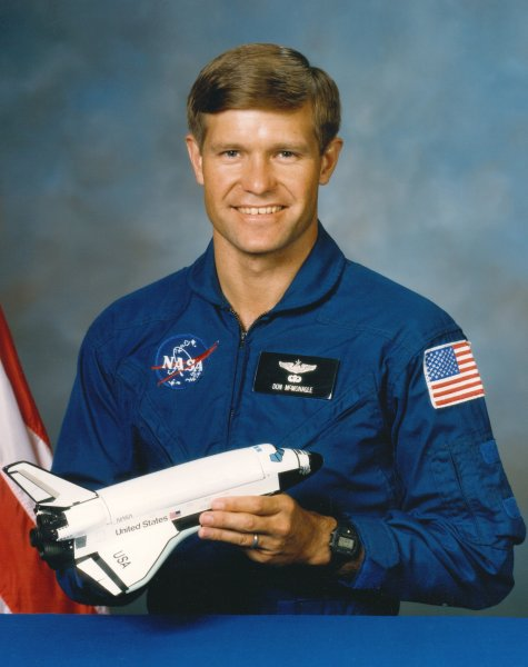 portrait astronaut Donald McMonagle